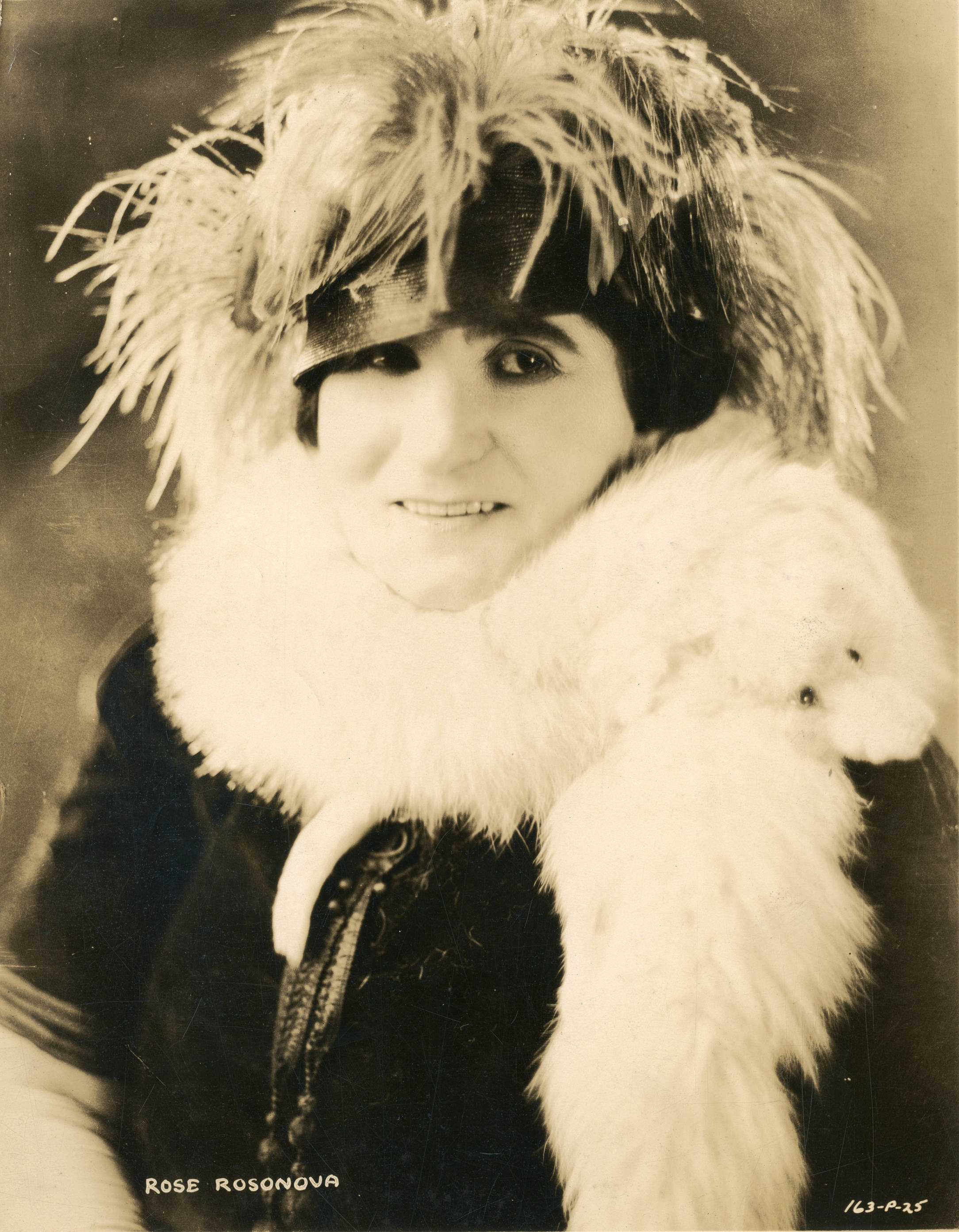 Rose Rosonova, silent film actress Subjects: actresses